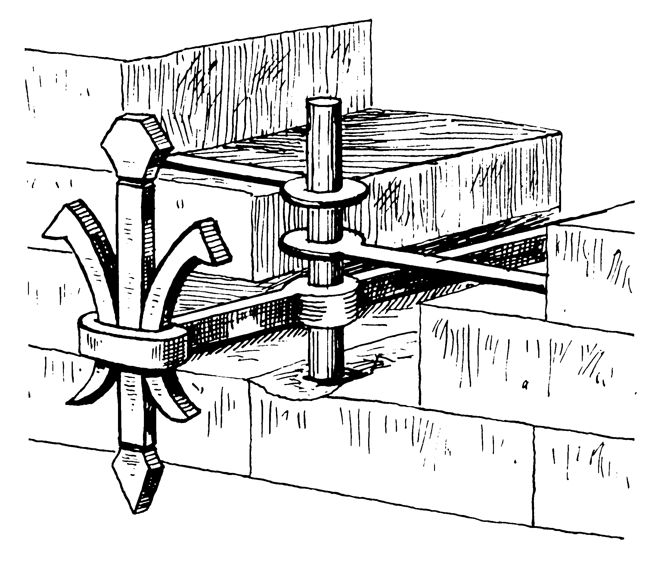 Line art drawing of an anchor